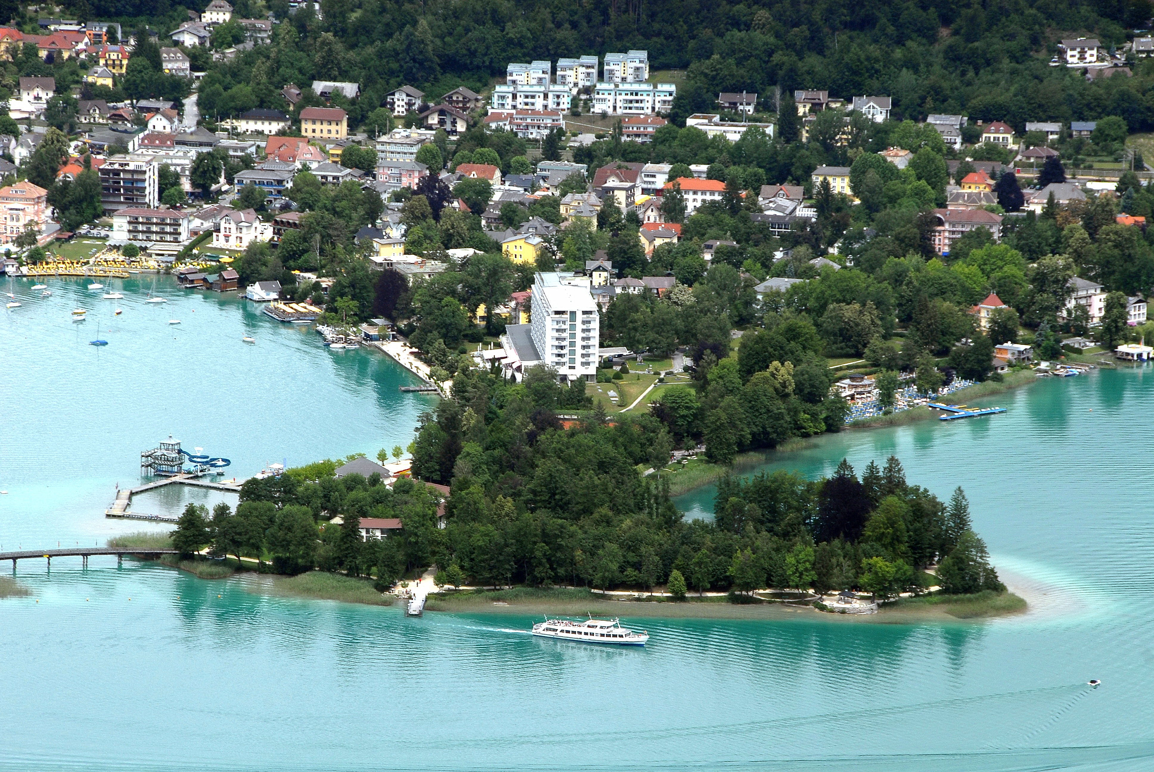 Peninsula with lido and Parkhotel, municipality Poertschach on the Lake Woerth, district Klagenfurt Land, Carinthia / Austria / EU